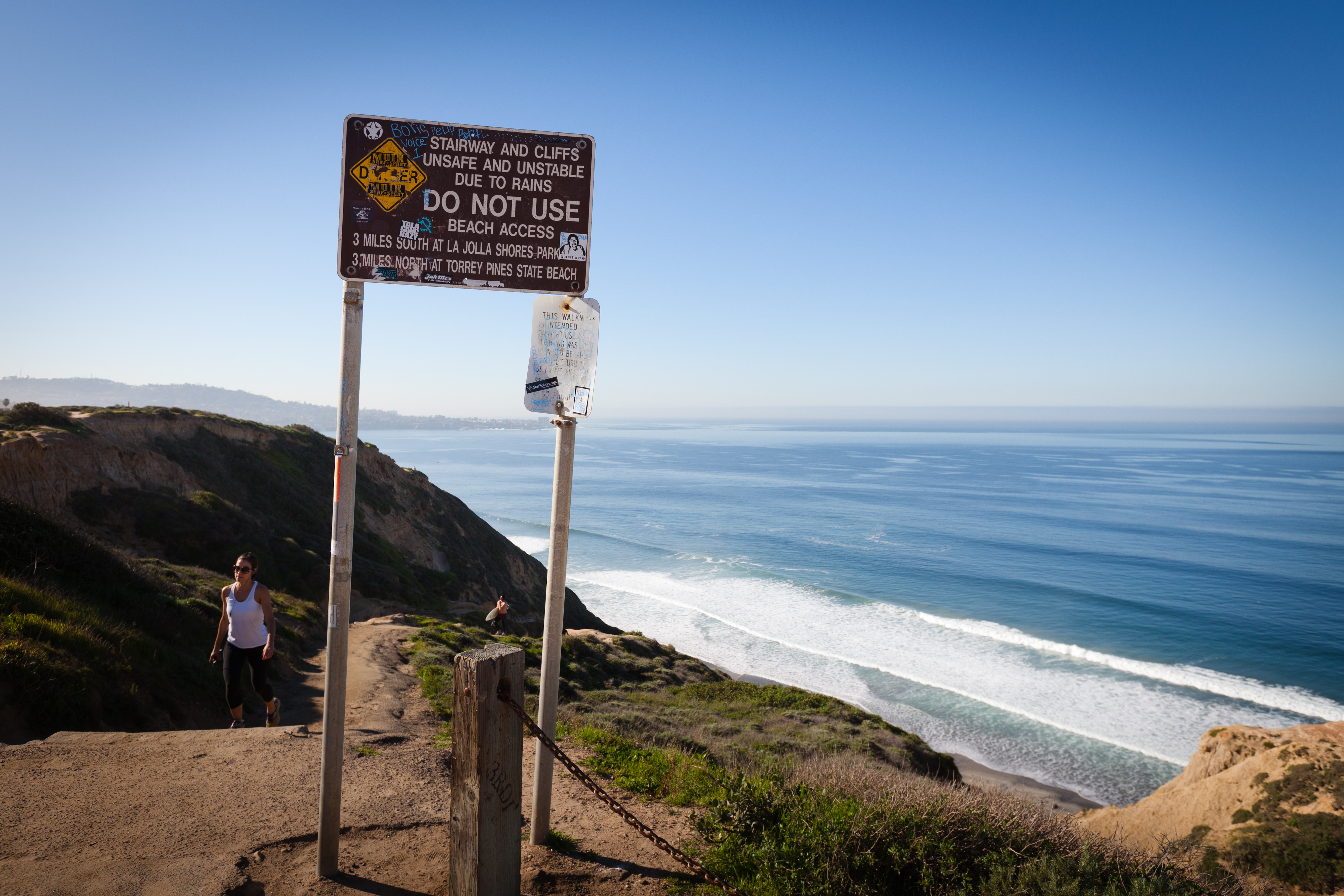 A sign warning not to use the trail that leads down the Torrey Pines cliffs from the gliderport to Black's Beach in San Diego, California.